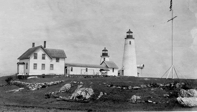 Bakers Island Light Massachusetts USA, c1925, B&W